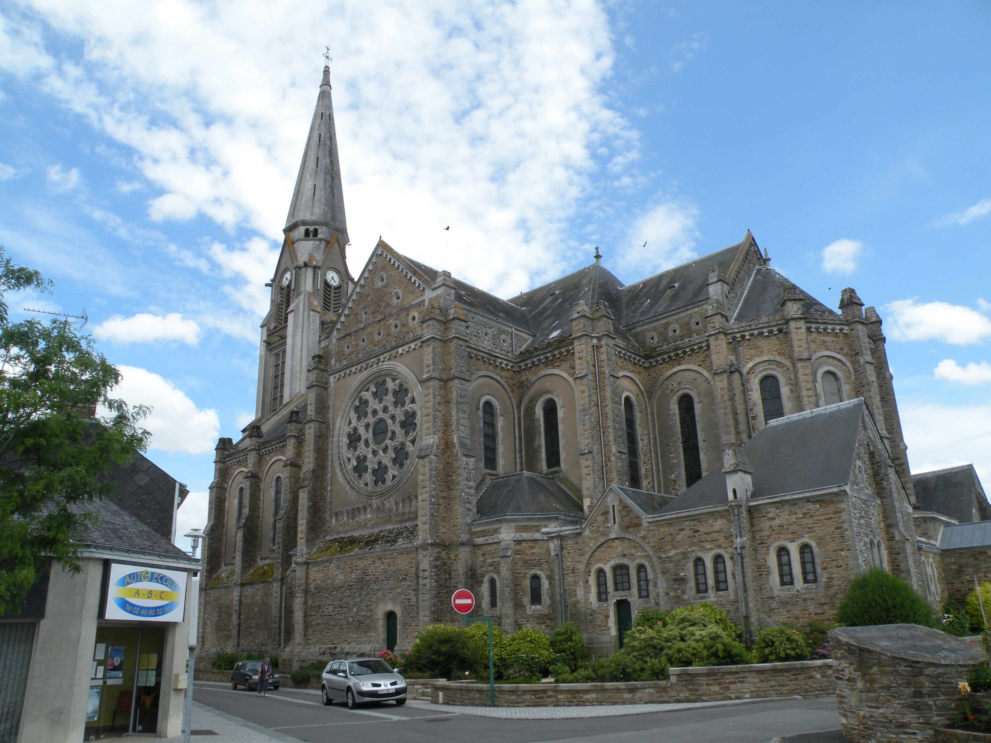 Church of Bouvron